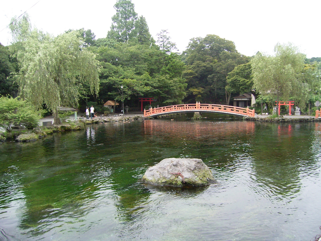 Wakutamanoike Fujinomiya Japan